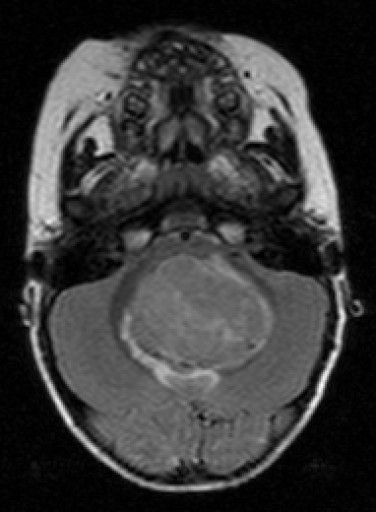 This image is part of a series which can be scrolled interactively with the mousewheel or mouse dragging. This is done by using Template:Imagestack. The series is found in the category Medulloblastoma - MRI - case 001. Medulloblastom in der MRT